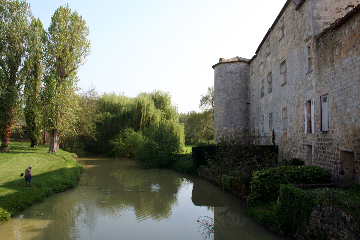 village of Fourcès, Gers (France).